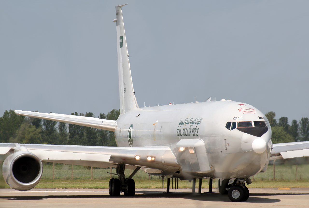 Boeing RE-3A Saudi Arabia Air Force